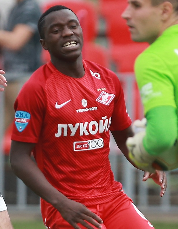 Fashion Sakala with FC Spartak-2 Moscow in a game against FC Krylia Sovetov Samara.